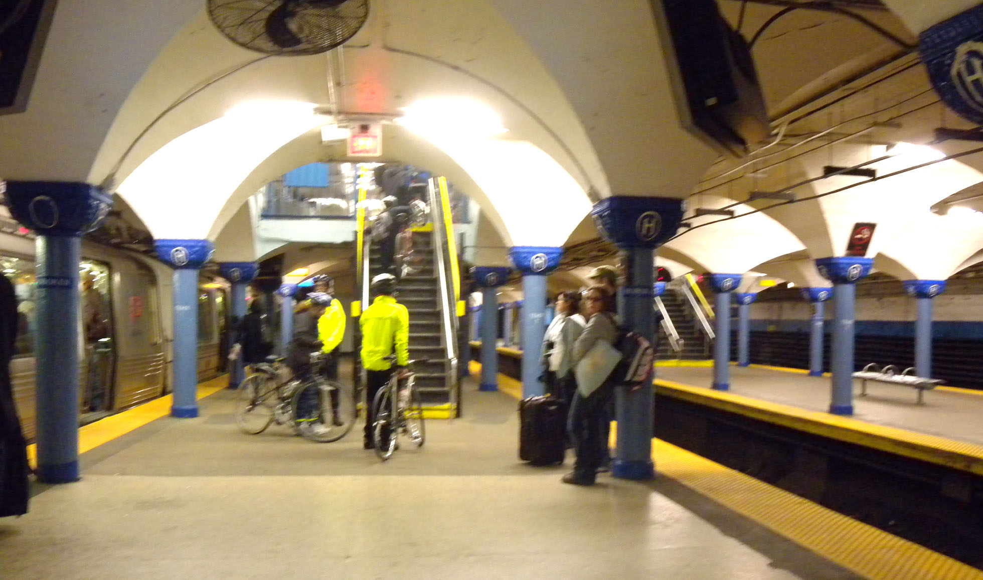 Platform of Hoboken PATH station with 5BBC group trying to find our way out.